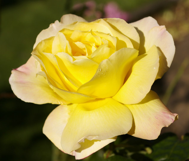 Rosa 'Peace' - hybrid tea rose; Lovely specimen of this delicate yellow and pink tinged rose.